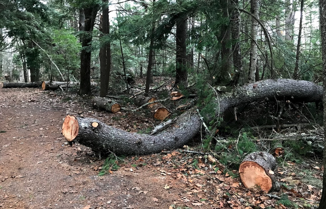 Thorne Head Preserve, Bath Maine, showing damage from October 29th 2017 storm.